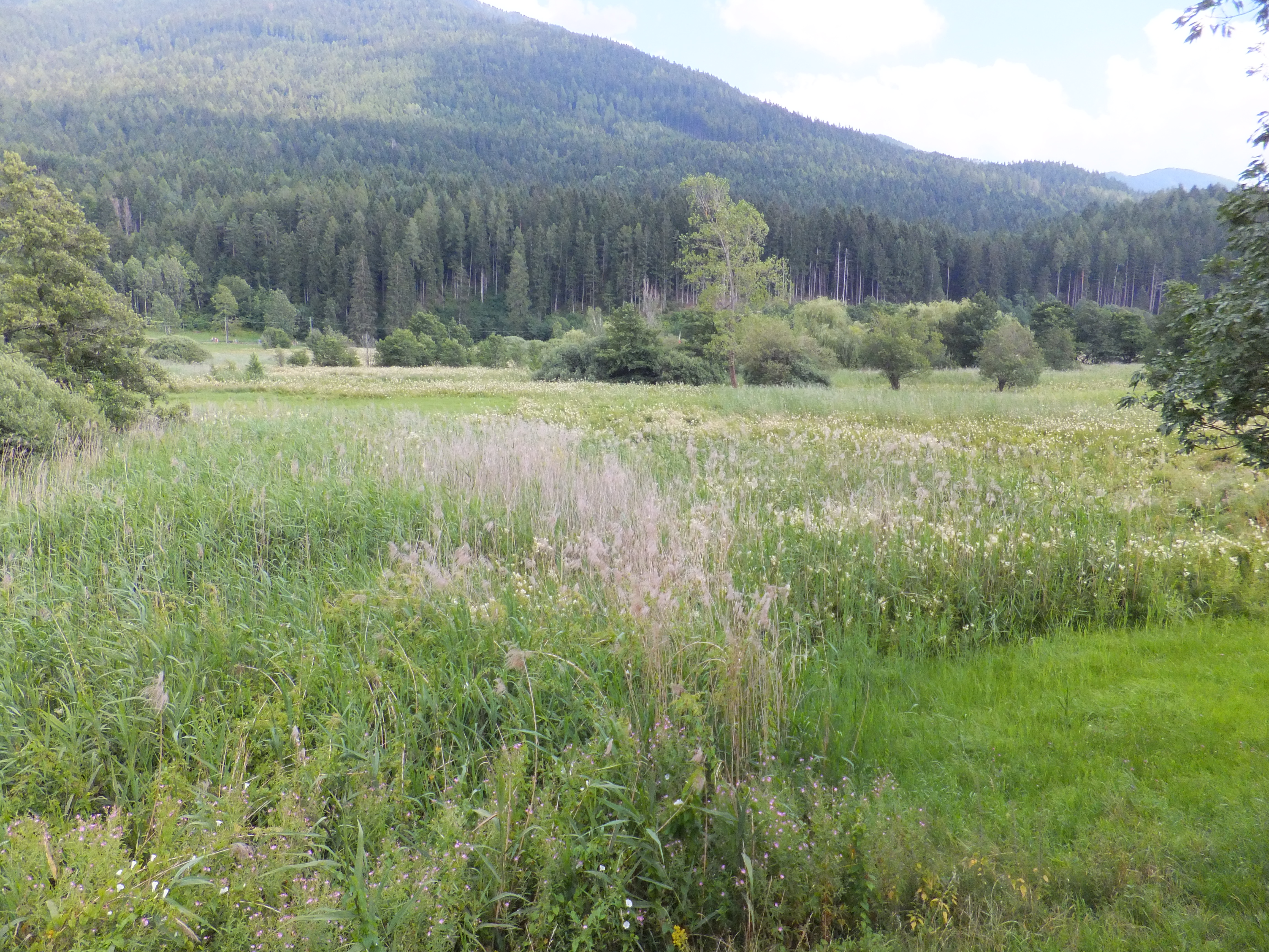 The biotope Paludi di Sternigo ("Swamps of Sternigo"), in Sternigo (Baselga di Pinè, Italy)